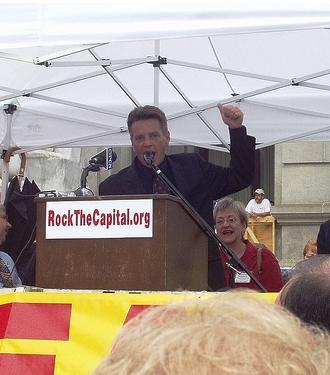 Photo Russ Diamond at CleansweepPA rally in Harrisburg